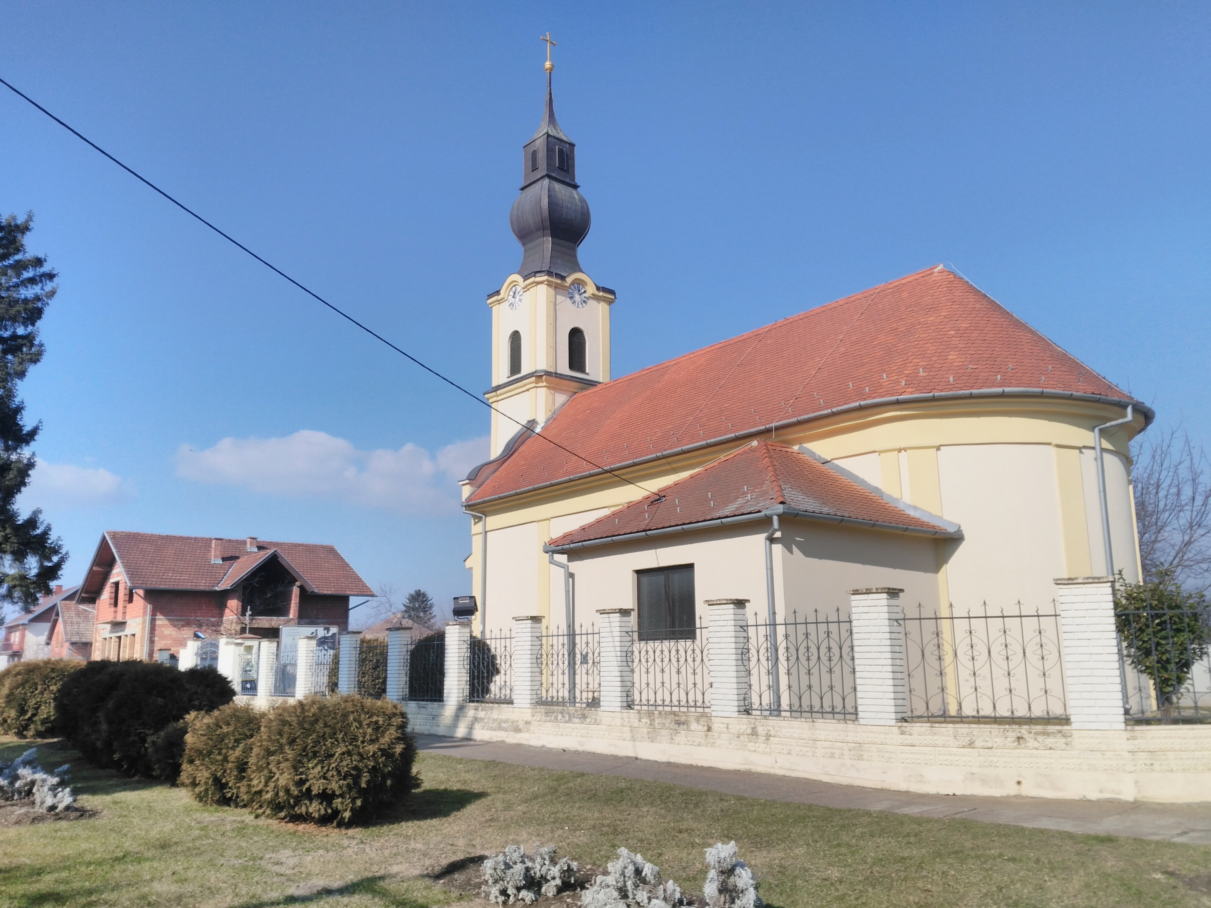 Church in the village of Svinjarevci in Vukovar-Syrmia County.